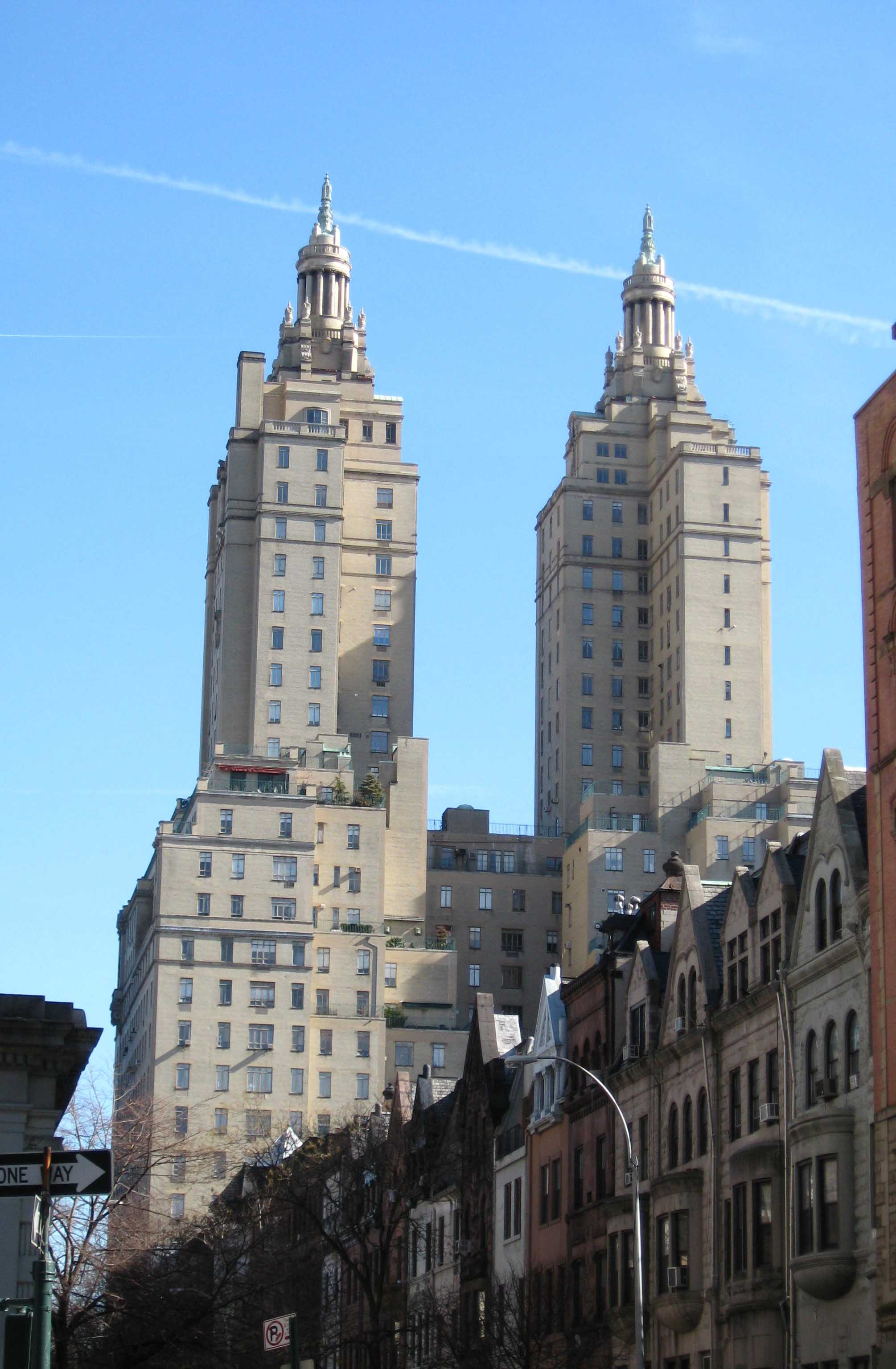 The San Remo as seen from West 75th Street and Columbus Avenue